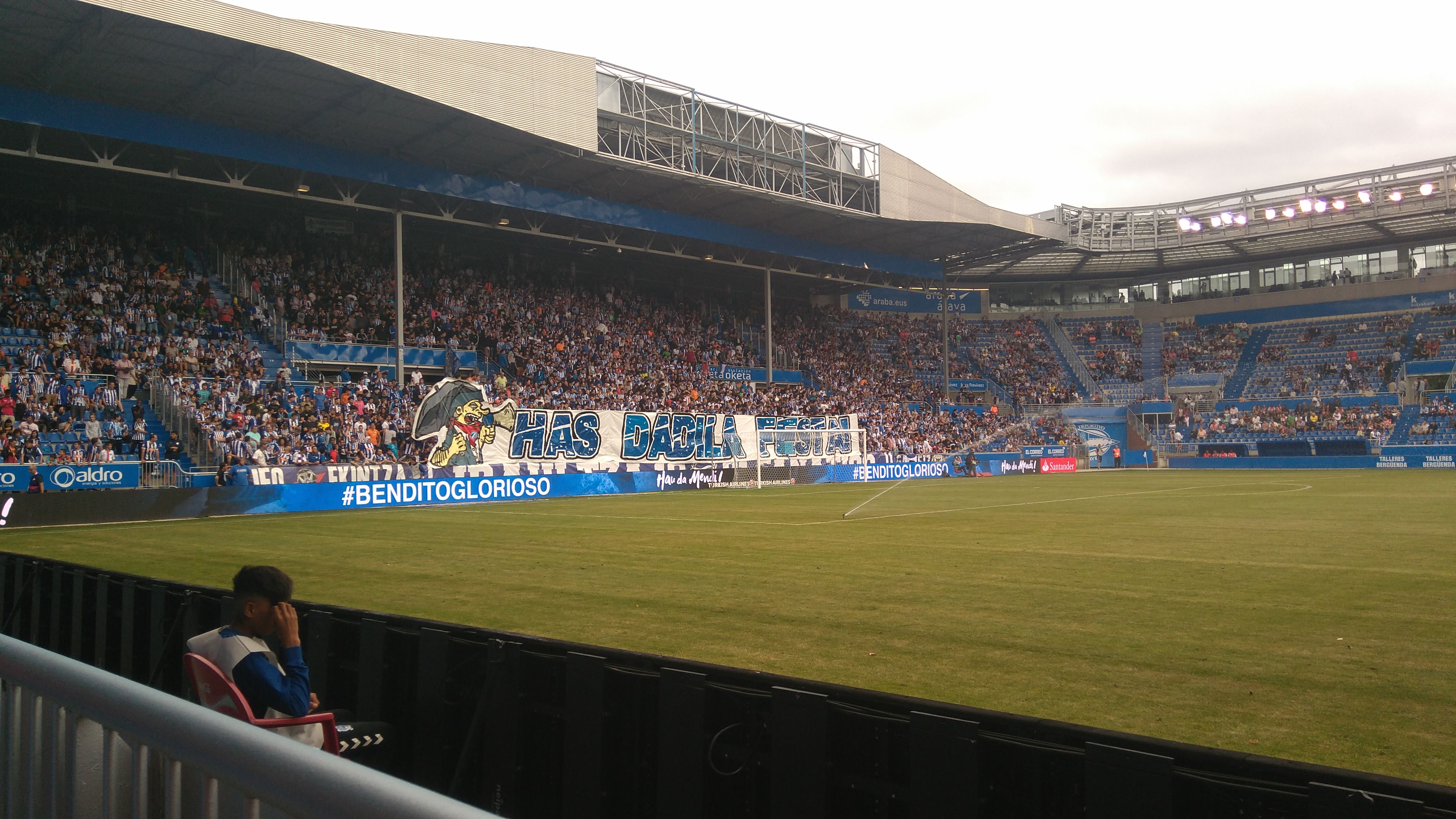 Supporters group "Iraultza" during the match between Alavés and Sporting Gijón of the 2016–17 La Liga at Mendizorroza.